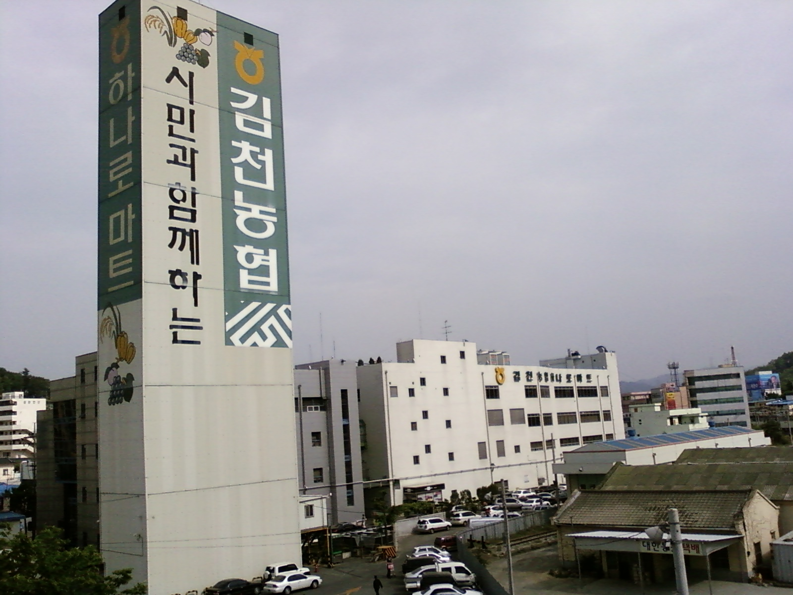 Gimcheon Nong Hyup Hanaro Mart